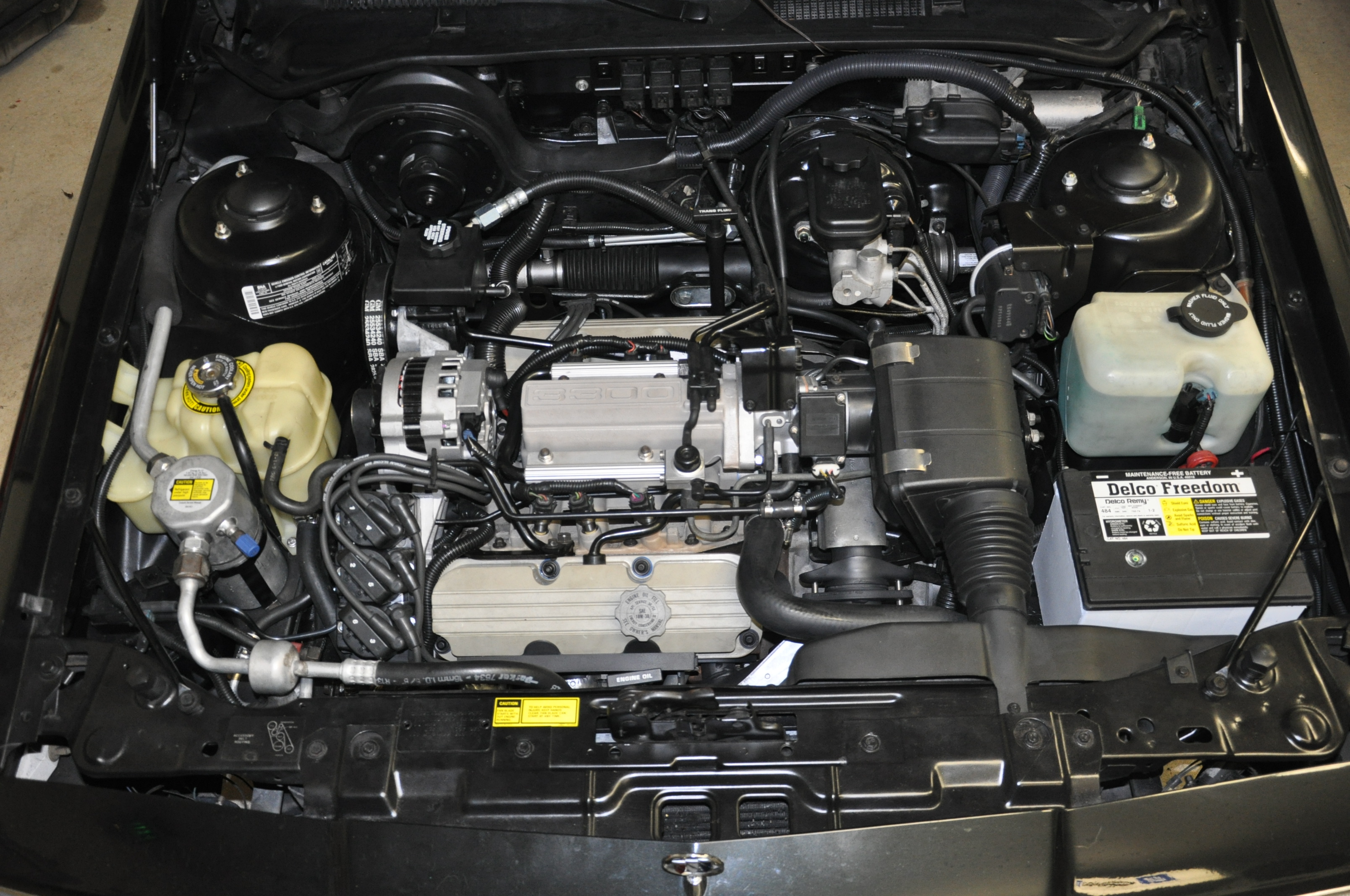 General Motors 3.3L (3300cc) V6 Engine (VIN N) in a 1990 Buick Skylark Luxury Edition.